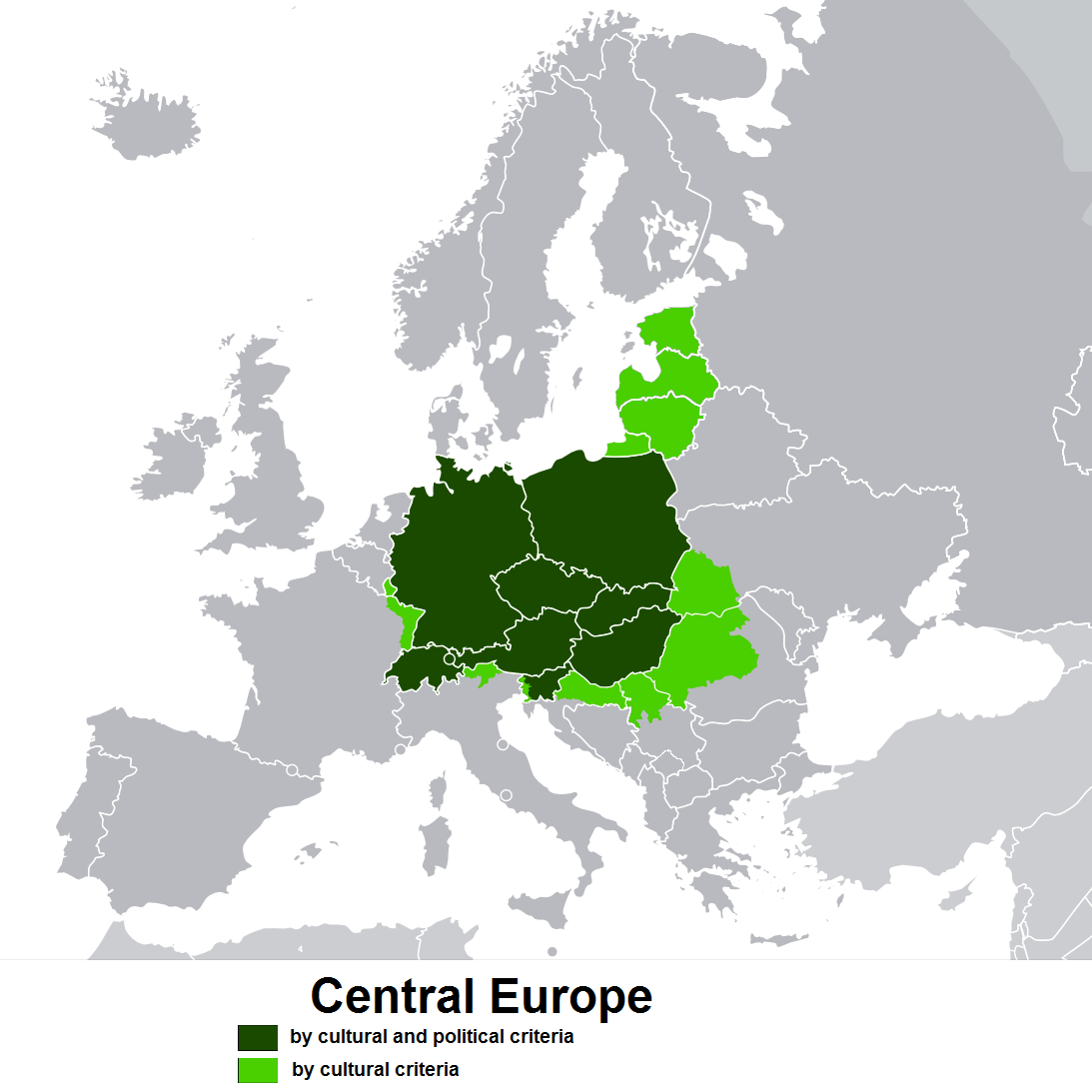 Central Europe, core countries and territories that are sometimes included - note, does not accurately correspond to information in the cited source